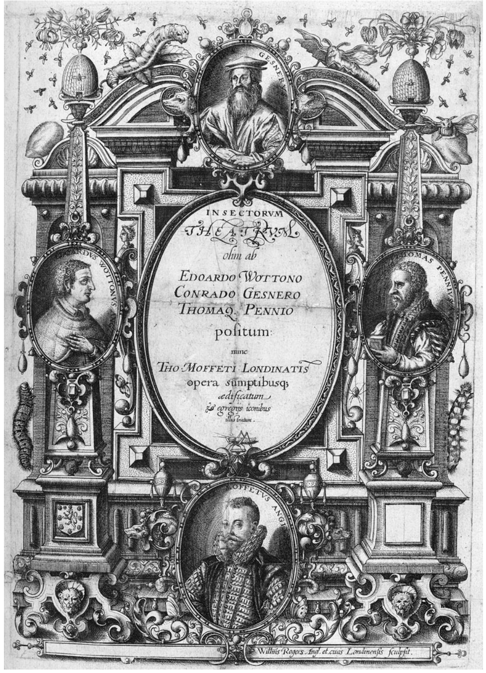 Engraved title page of Insectorum Theatrum made by William Rogers but not used in the published version.